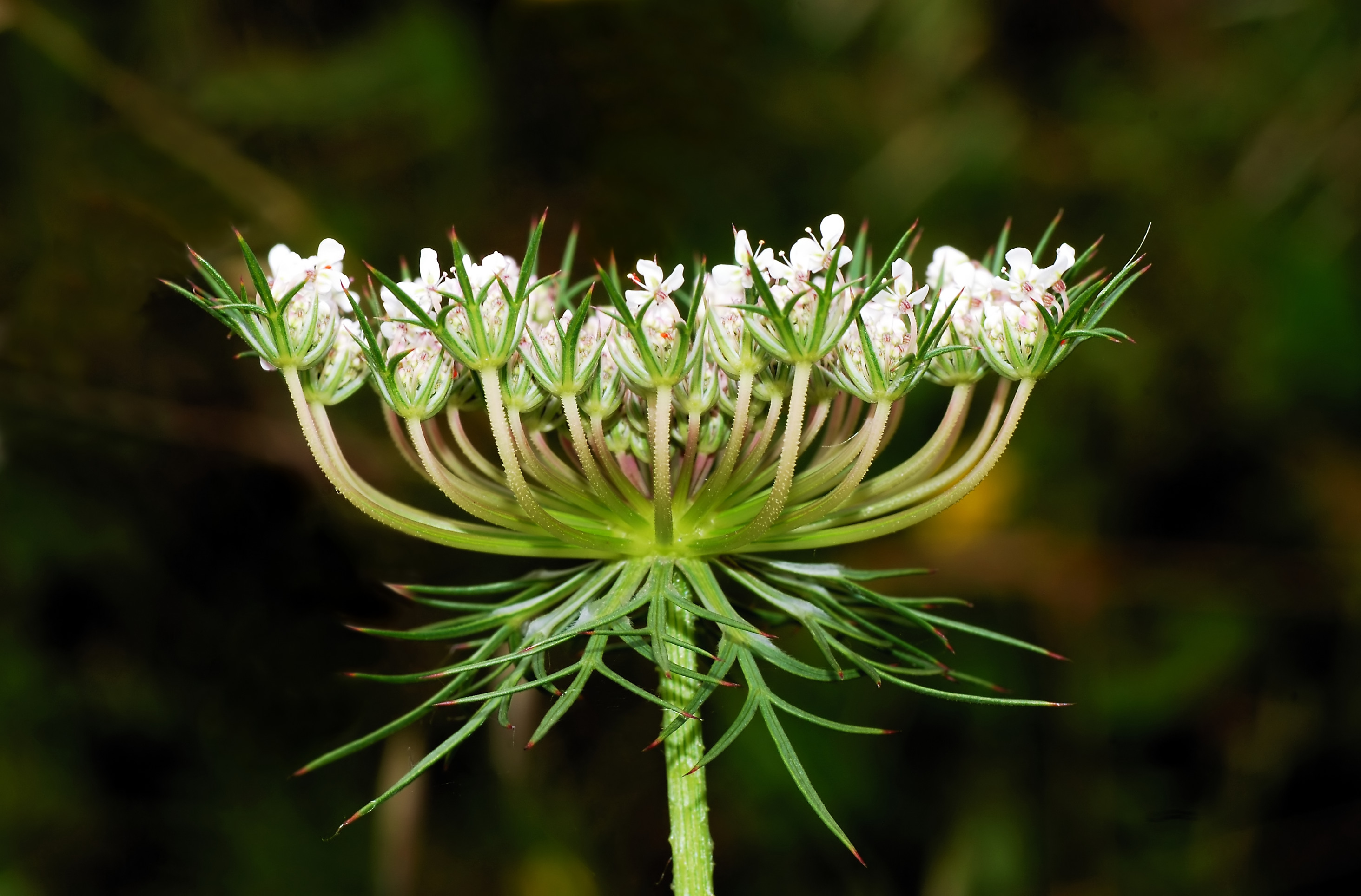 Daucus carota (Wild Carrot)